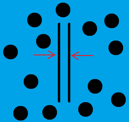 If the distance between two plates in a solution of macromolecules is smaller than the diameter of the macromolecules, then the solution between the plates is pure solvent and a force acting on the plates equal to the osmotic pressure times the area of the plates.